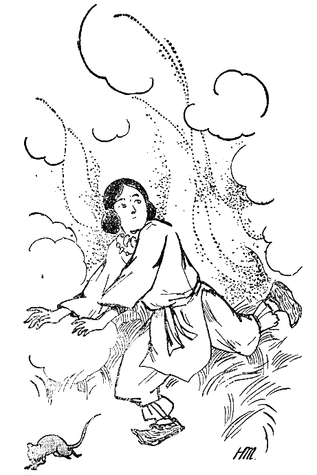 The god Ōnamuji (Ōkuninushi) hiding from a fire aided by a mouse.